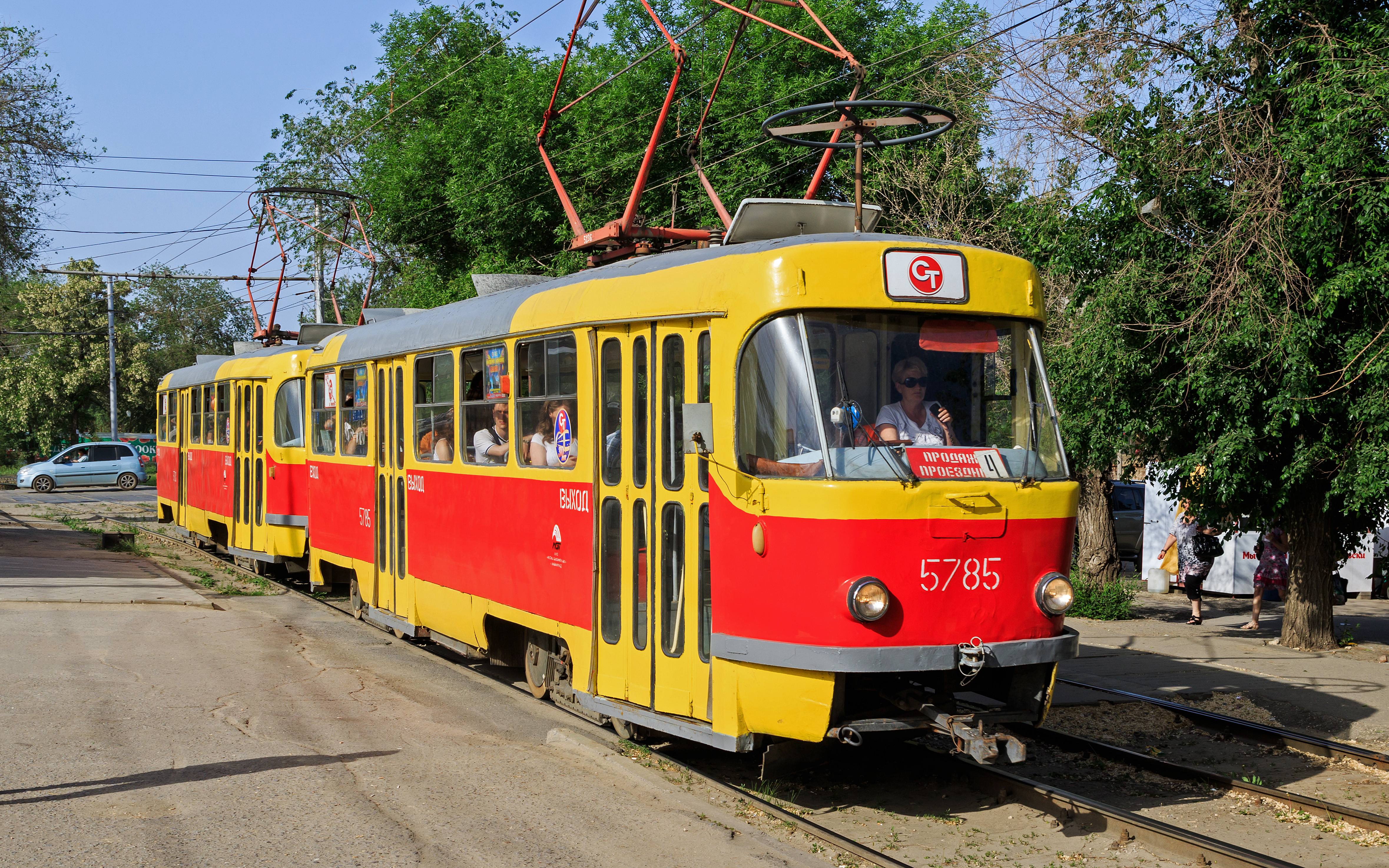 Metrotram train at Mamaev Kurgan station in Volgograd, Russia